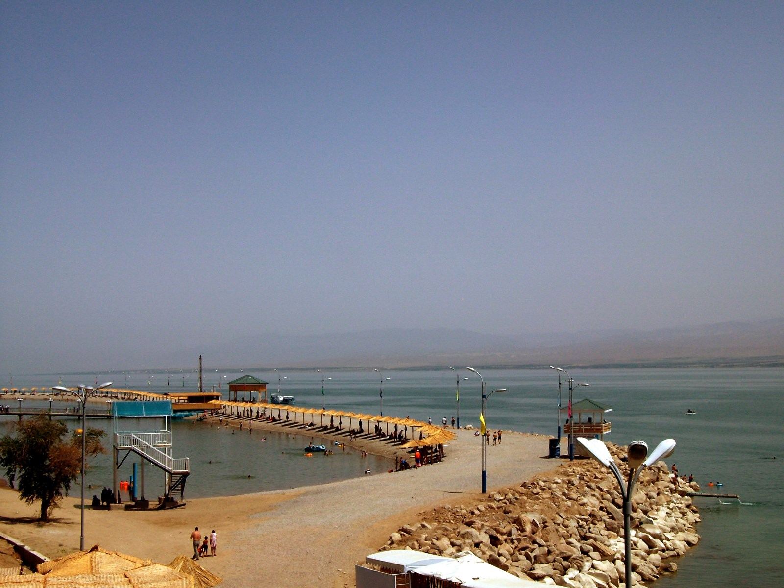 Kayrakkum Reservoir, Tajikistan, Kyrgyzstan, Central Asia